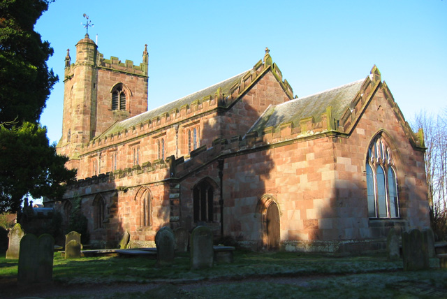 St Margaret's parish church, Wrenbury, Cheshire, England, seen from the southeast. The parish was built early in the 16th century of local red sandstone. The chancel (right) was added in 1806.